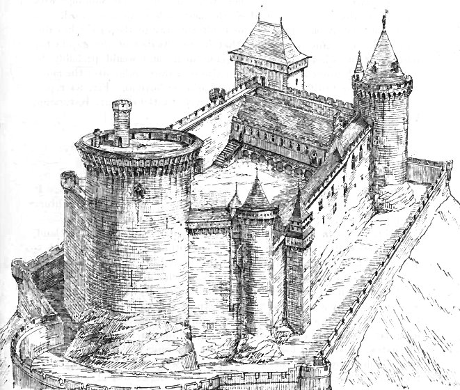 Conjectural reconstruction of Bothwell Castle, Scotland.